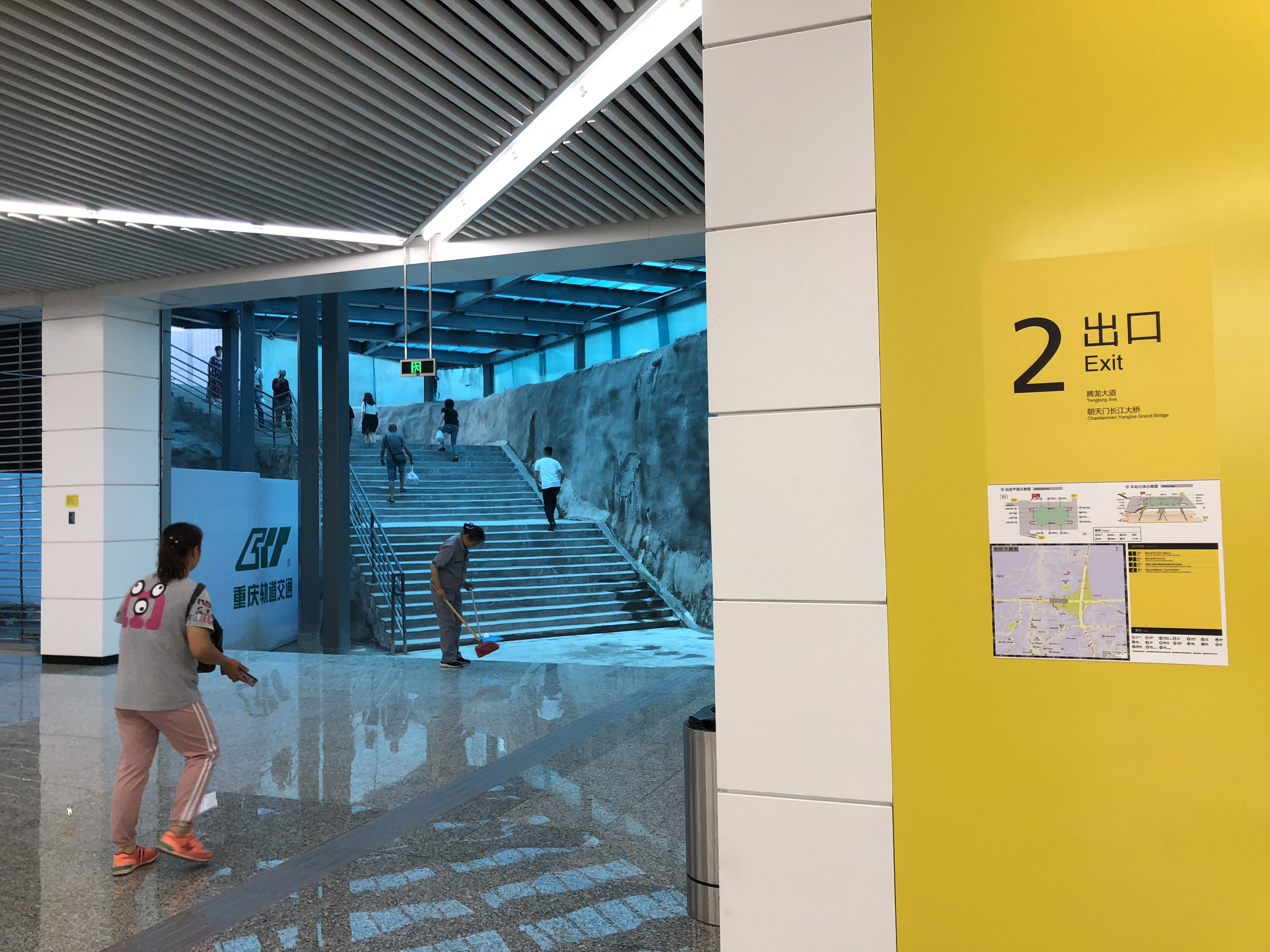 The makeshift passageway for Exit 2 of Danzishi station, a metro station on the Loop Line of Chongqing Rail Transit in Chongqing, China.